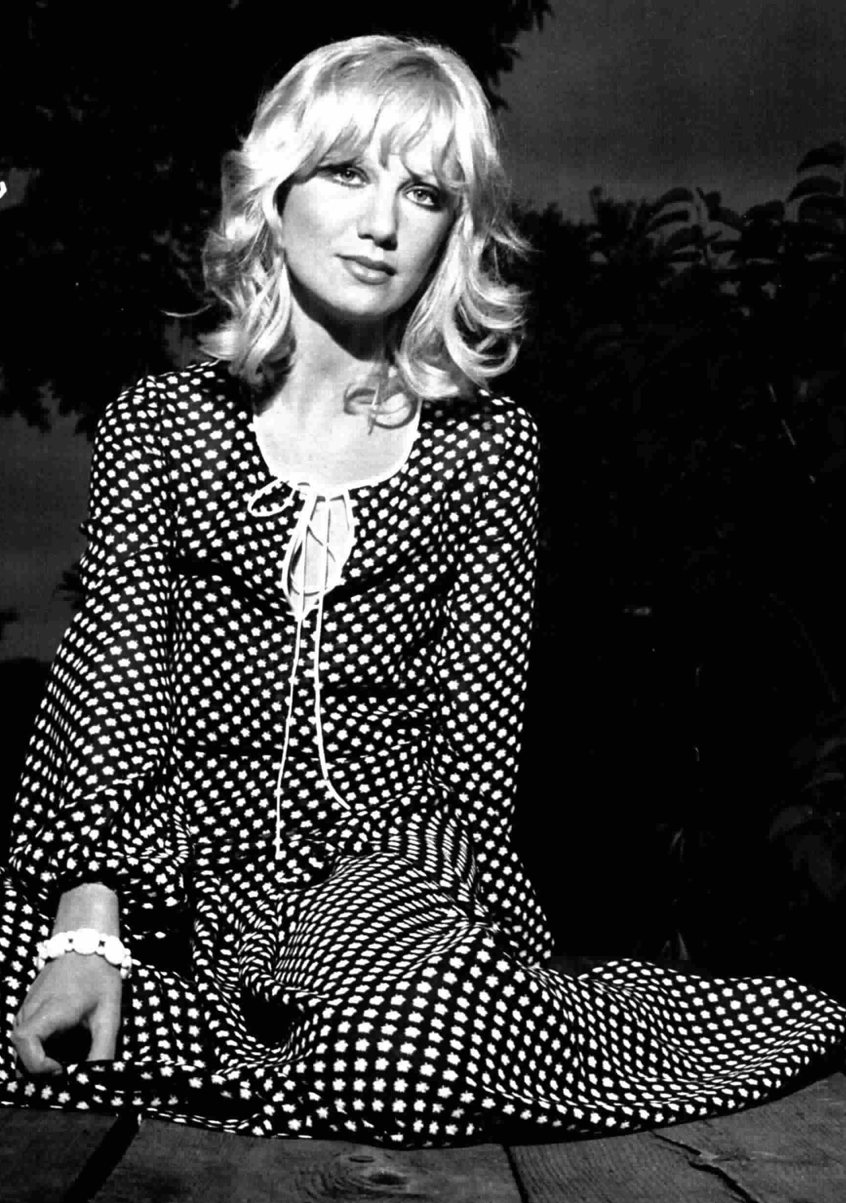 Italian actress Daria Nicolodi